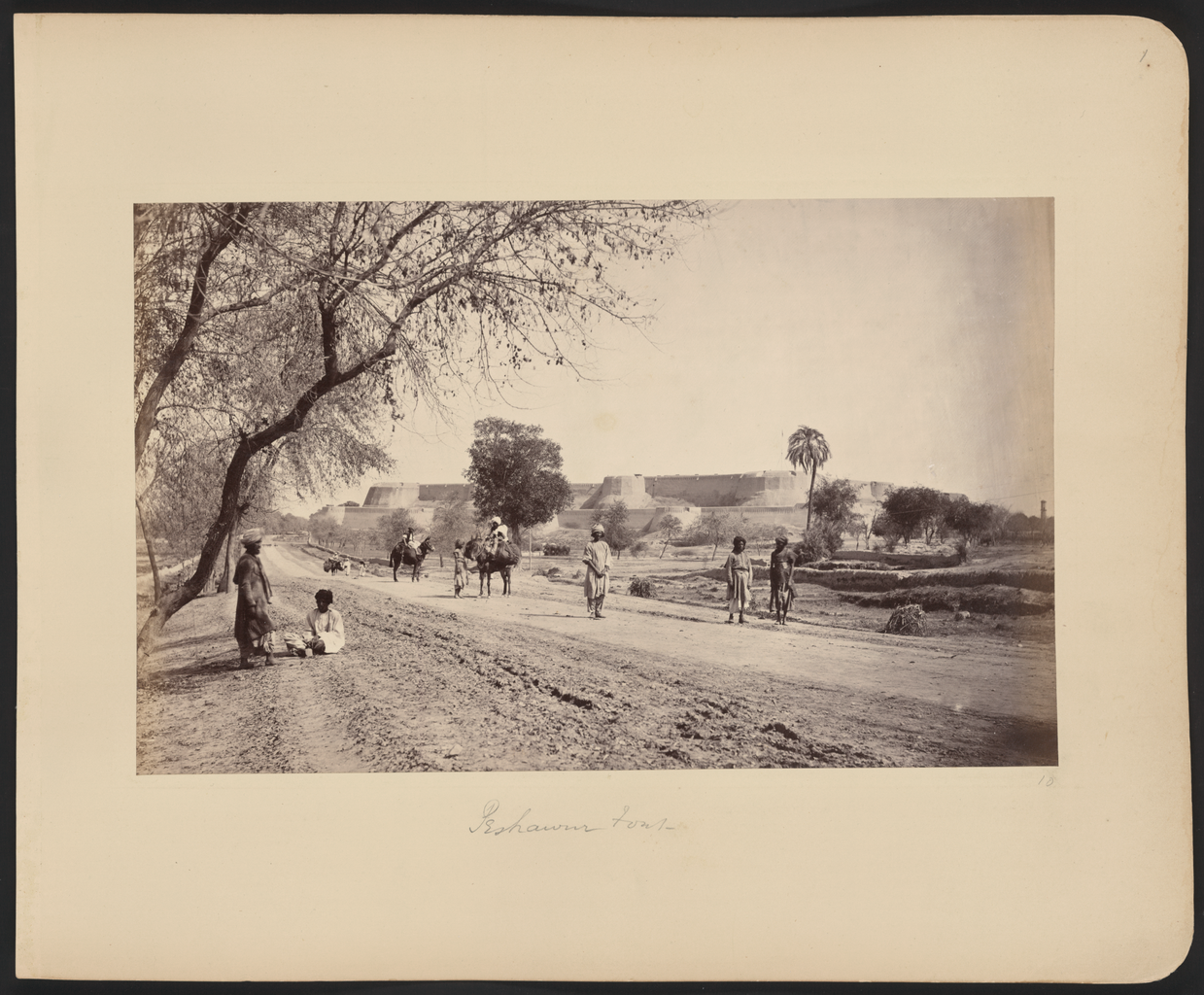 This photograph of Peshawar Fort is from an album of rare historical photographs depicting people and places associated with the Second Anglo-Afghan War. Also known as Bala Hissar (High Fort, in Persian), the fort served as the winter capital of the Durrani Empire (1747–1818). It was reconstructed in 1835 under the Sikh Empire (1799–1849), after its conquest by Sikh forces, but was captured by the British in 1849. The fort dominates the background of the photograph. The dirt road in the foreground is the Grand Trunk Road running from India to Afghanistan. On it travelers and merchants are seen observing the photographer. The Second Anglo-Afghan War began in November 1878 when Great Britain, fearful of what it saw as growing Russian influence in Afghanistan, invaded the country from British India. The first phase of the war ended in May 1879 with the Treaty of Gandamak, which permitted the Afghans to maintain internal sovereignty but forced them to cede control over their foreign policy to the British. Fighting resumed in September 1879, after an anti-British uprising in Kabul, and finally concluded in September 1880 with the decisive Battle of Kandahar. The album includes portraits of British and Afghan leaders and military personnel, portraits of ordinary Afghan people, and depictions of British military camps and activities, structures, landscapes, and cities and towns. The sites shown are all located within the borders of present-day Afghanistan or Pakistan (a part of British India at the time). About a third of the photographs were taken by John Burke (circa 1843–1900), another third by Sir Benjamin Simpson (1831–1923), and the remainder by several other photographers. Some of the photographs are unattributed. The album possibly was compiled by a member of the British Indian government, but this has not been confirmed. How it came to the Library of Congress is not known. Afghan Wars; Forts and fortifications; Street scenes